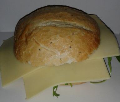 Dutch "Italian style" bread bun with cheese and rucola